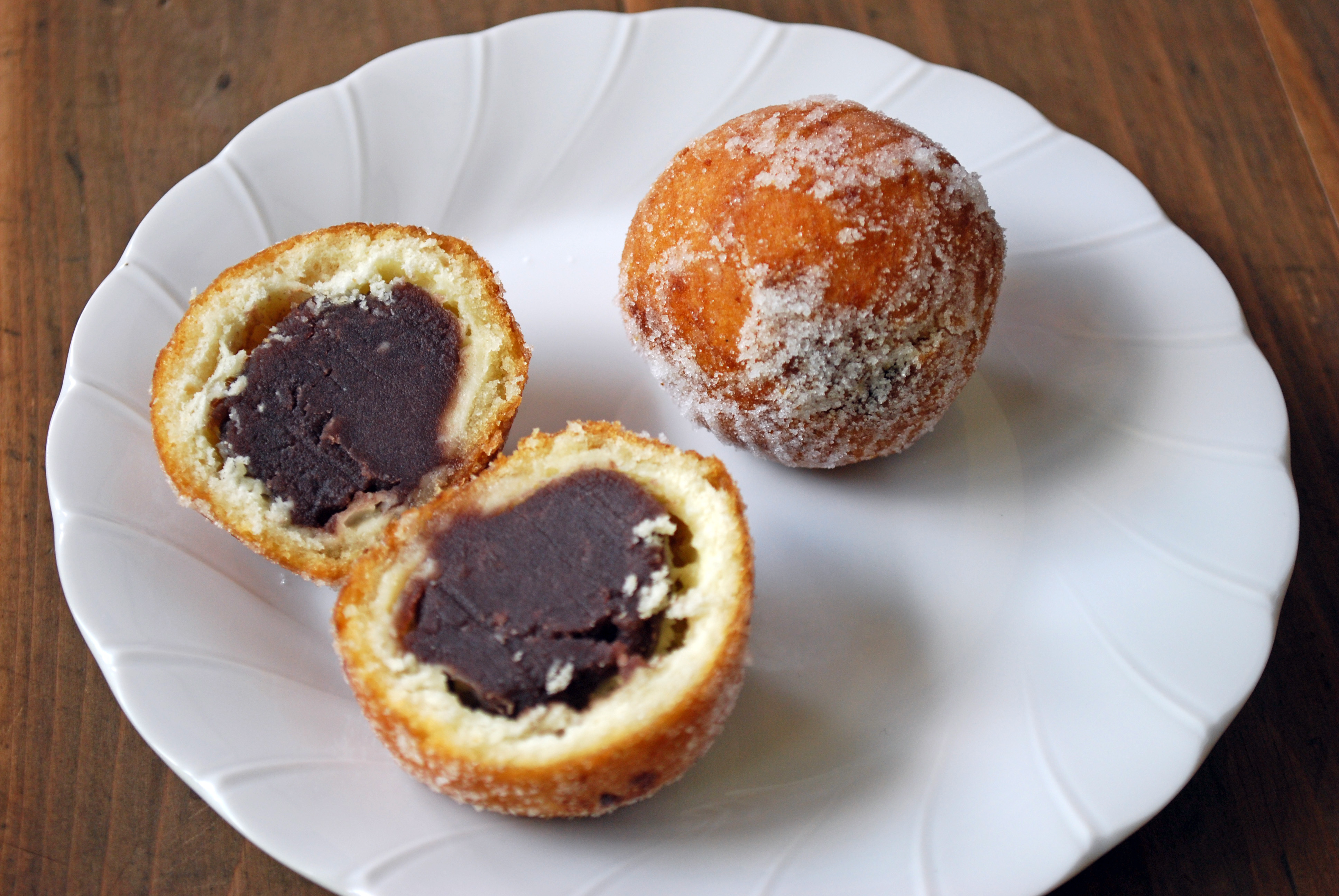 Bean jam doughnut,Katori-city,Japan